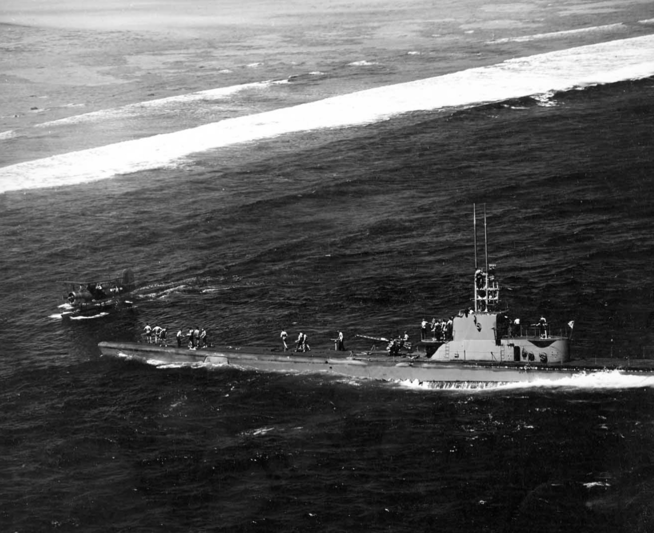 The U.S. Navy Gato-class submarine USS Harder (SS-257) during the rescue of Ens. John R. Galvin off Woleai Atoll. The Curtiss SOC Seagull floatplane attempted to aid in the rescue but actually parted the line by which the aviator and three submariners that came to his rescue should have been pulled from the surf! The rescue was later successful using a new line. Galvin was a pilot assigned to Fighting Squadron VF-8 aboard the aircraft carrier USS Bunker Hill (CV-17). Galvin had left his formation to strafe a Mitsubishi G4M1 bomber on Falalop, but his Grumman F6F-3 Hellcat (BuNo 40695) was hit by flak and he had to bail out circa 8 km north of Taugalap.